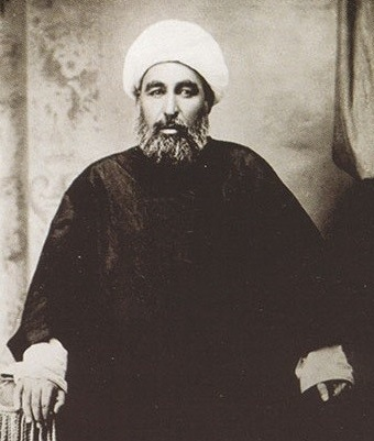 Malek al-Motakallemin (?-1908), Iranian Constitutional revolutionary, killed on the order of Mohammad-Ali Shah Qajar.